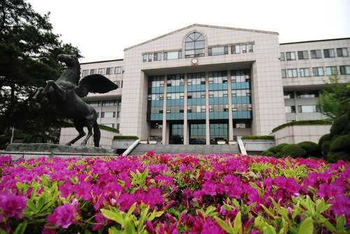 kwangwoon university